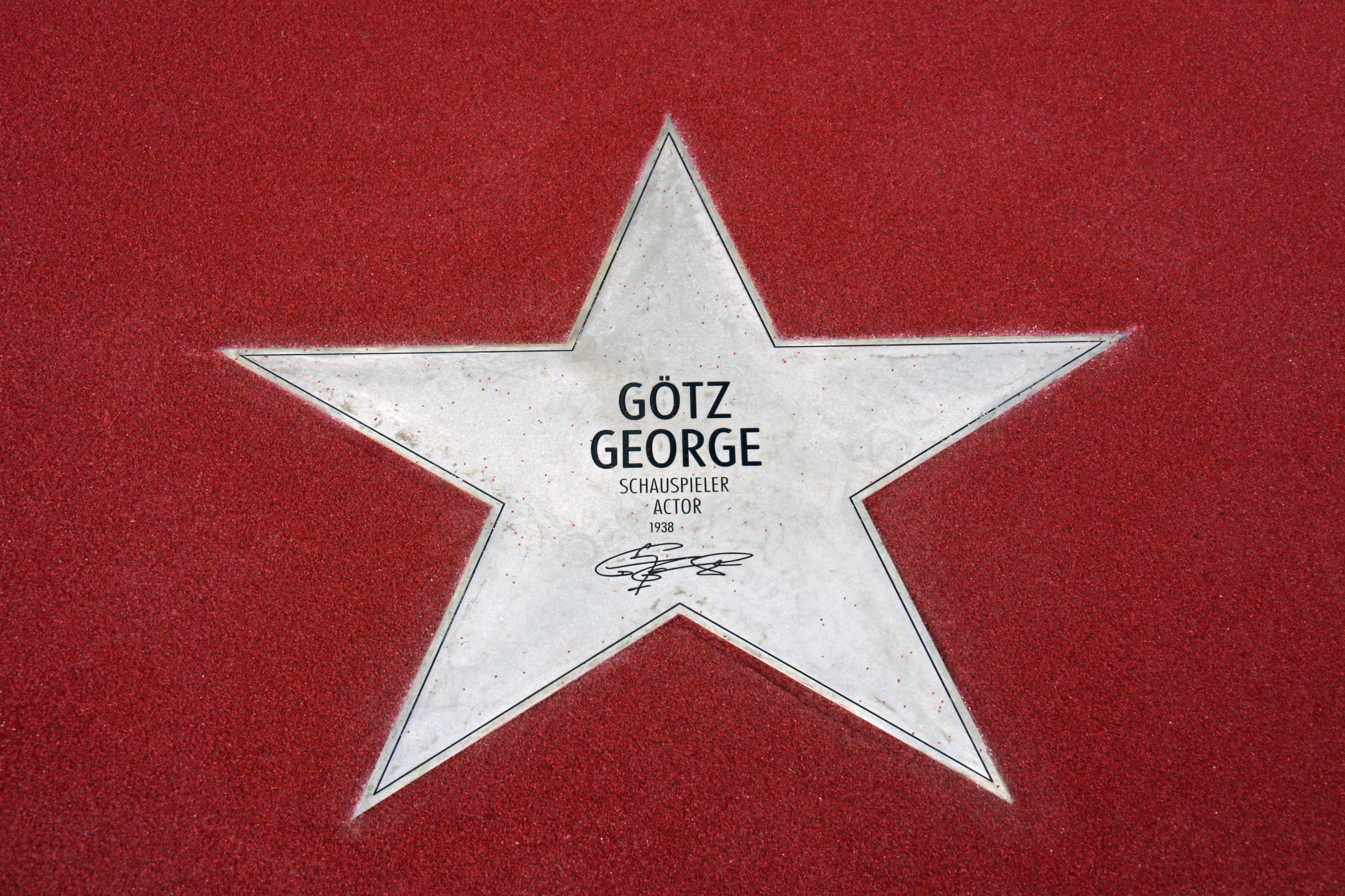 Star of Götz George at the "Boulevard der Sterne" in Berlin